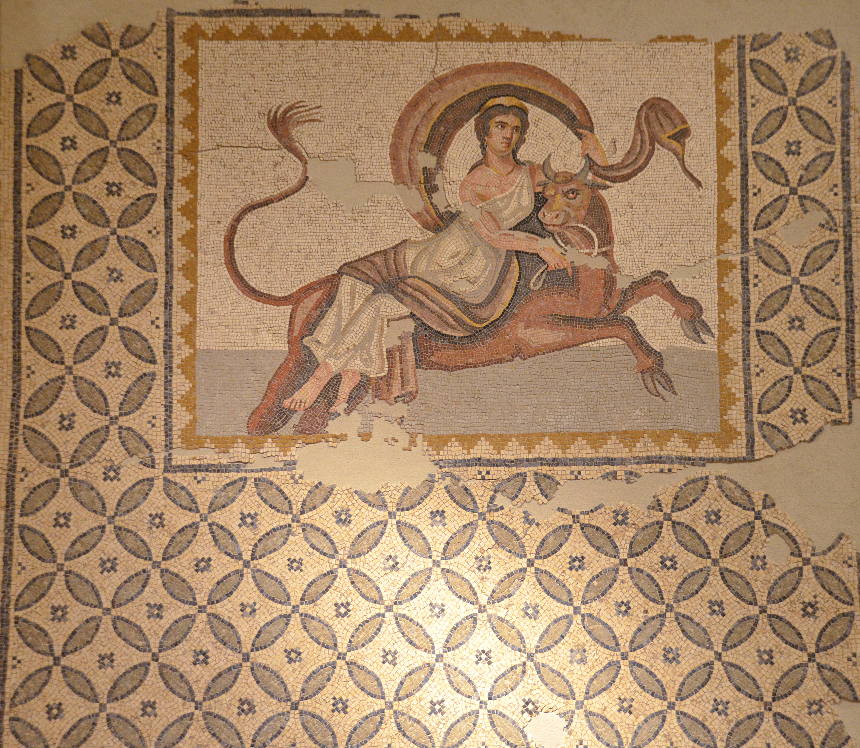 Roman Mosaic from Byblos depicting the myth of the Abduction of the Tyrian princess Europa by Zeus, dated 200 to 300 CE, on display at the National Museum of Beirut, Lebanon